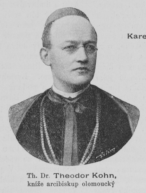 Portrait of Theodor Kohn (1845 - 1915), archbishop of Olomouc (present-day Czech Republic)